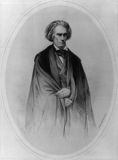 Portrait of John C. Calhoun